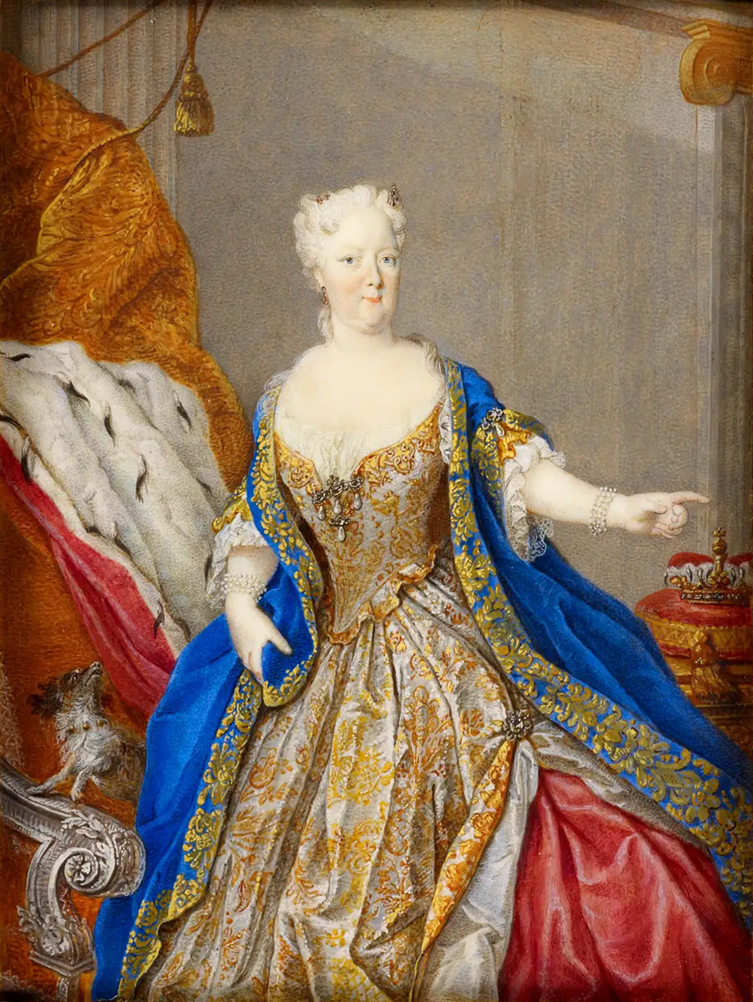 Christina Louisa, Duchess of Brunswick-Wolfenbüttel (1671-1747). The miniature was probably painted from life, like its companion portrait of Duchess Louisa's husband (RCIN 420668). Louisa was the daughter of Albert Ernest, Prince of Oettingen. In 1690, she married Ludwig Rudolph, Duke of Brunswick-Wolfenbüttel.